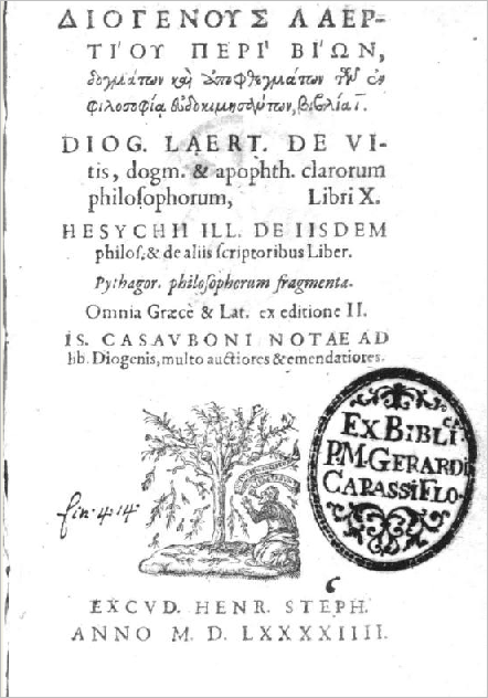 Screen shot from National Library of Florence Italy. See web page for full details including a statement "Copyright type: Free"